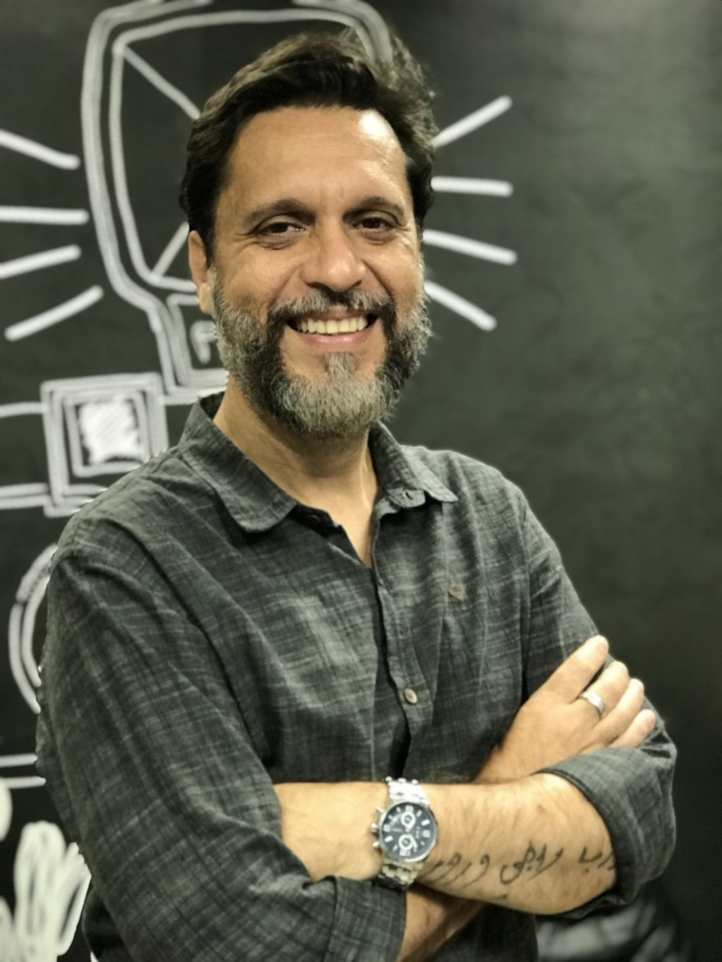 André Warwar